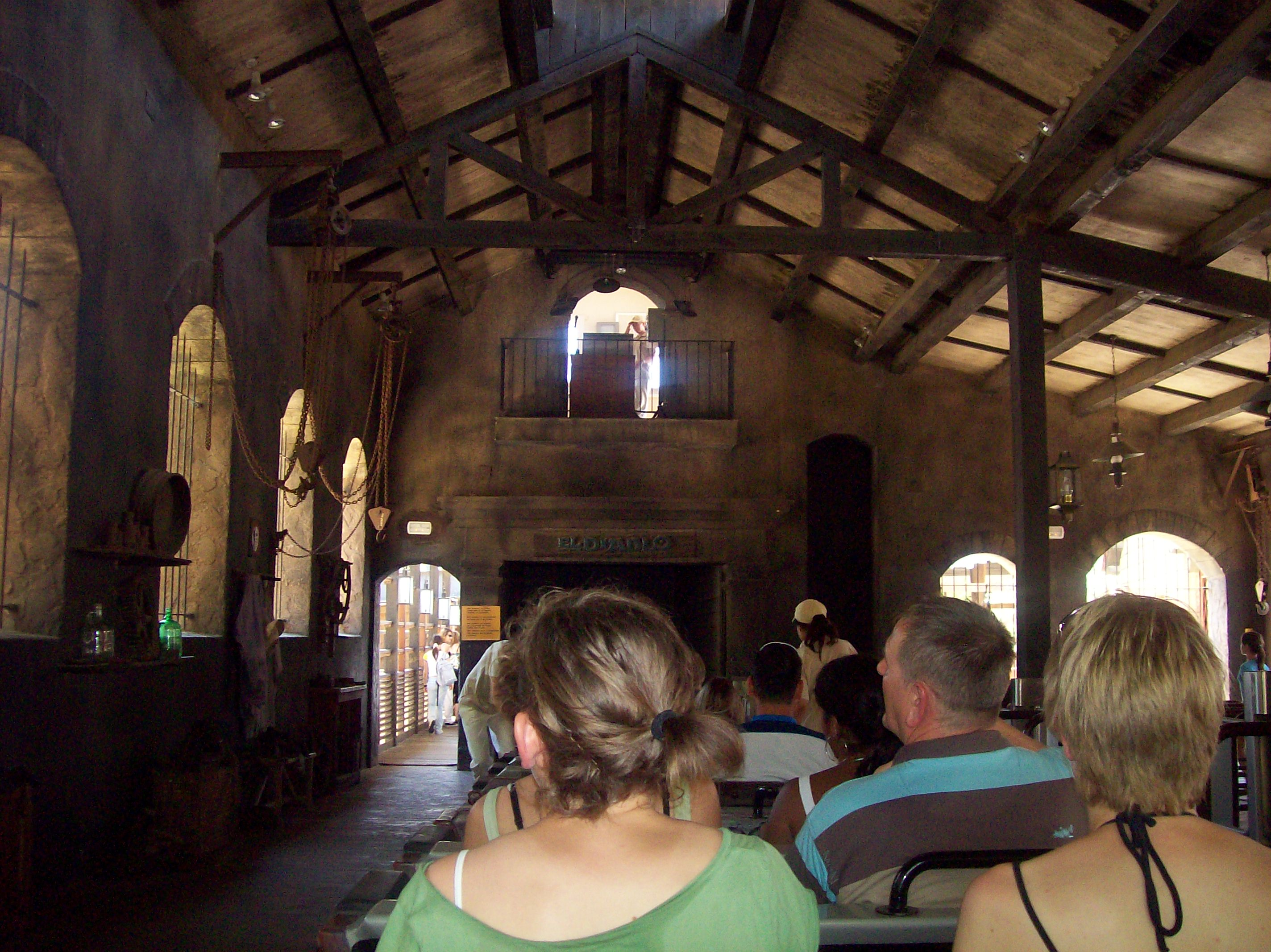 Station of El Diablo, Tren de la Mina (Port Aventura)